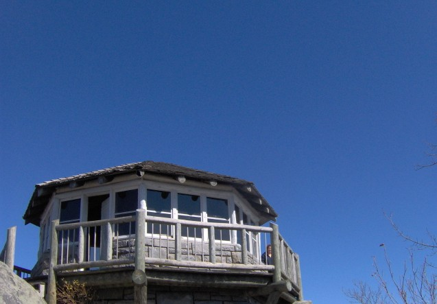 The lookout atop Mount Cammerer in the Great Smoky Mountains. The lookout, formerly used by fire rangers, offers a 360-degree view of the Eastern Smokies and the Cocke County, Tennessee.